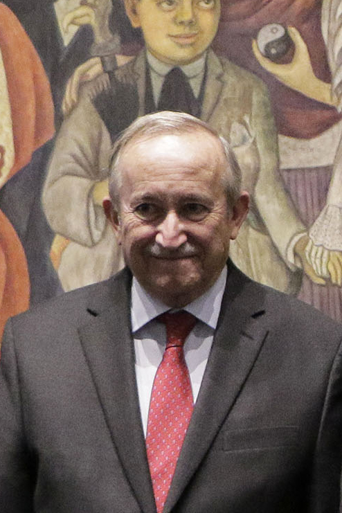 Tuesday, September 25, 2018. Diego Rivera Mural Museum, Mexico City. Presentation of book "Seisms and Cultural Heritage".